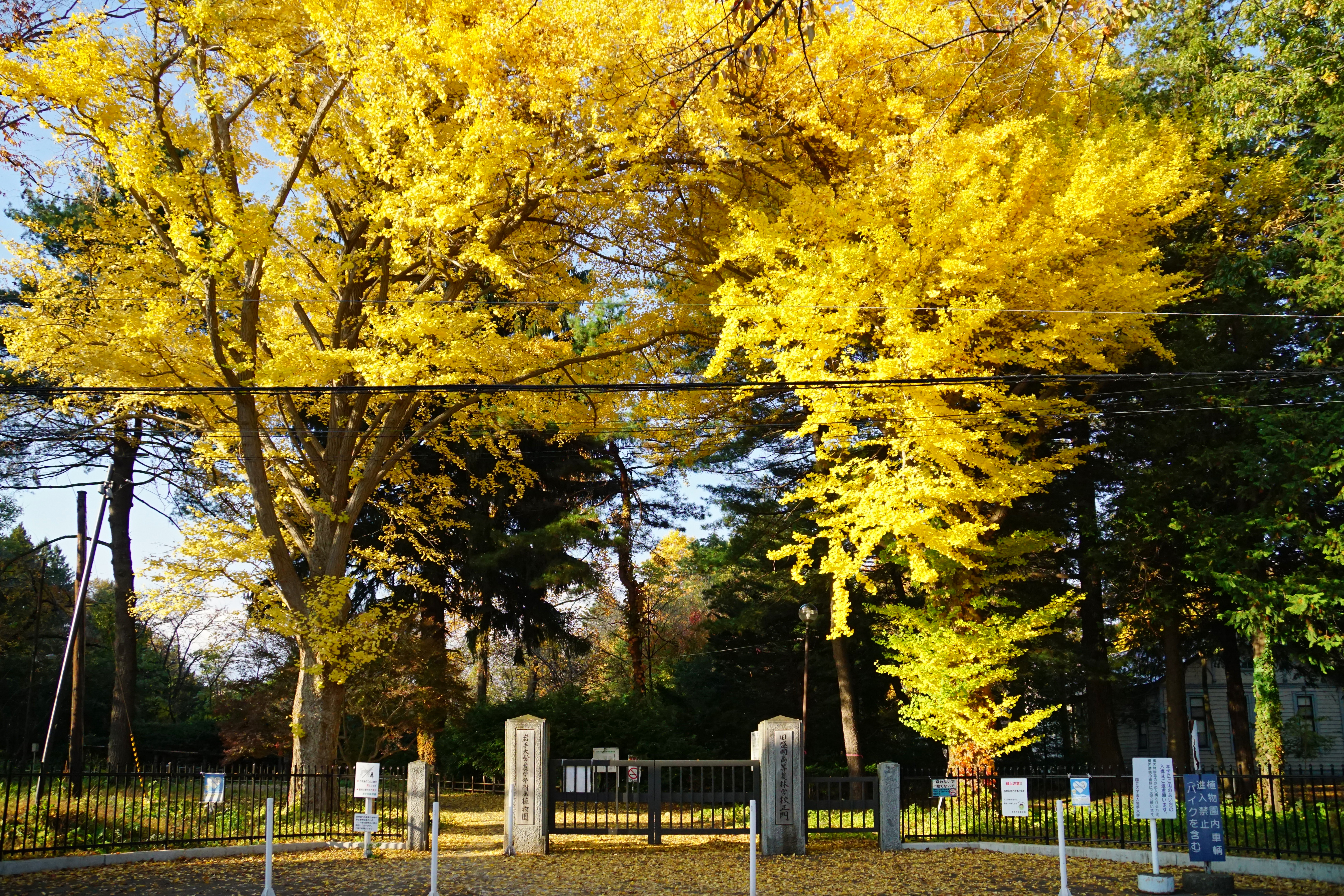 Iwate_University in Morioka, Iwate prefecture, Japan